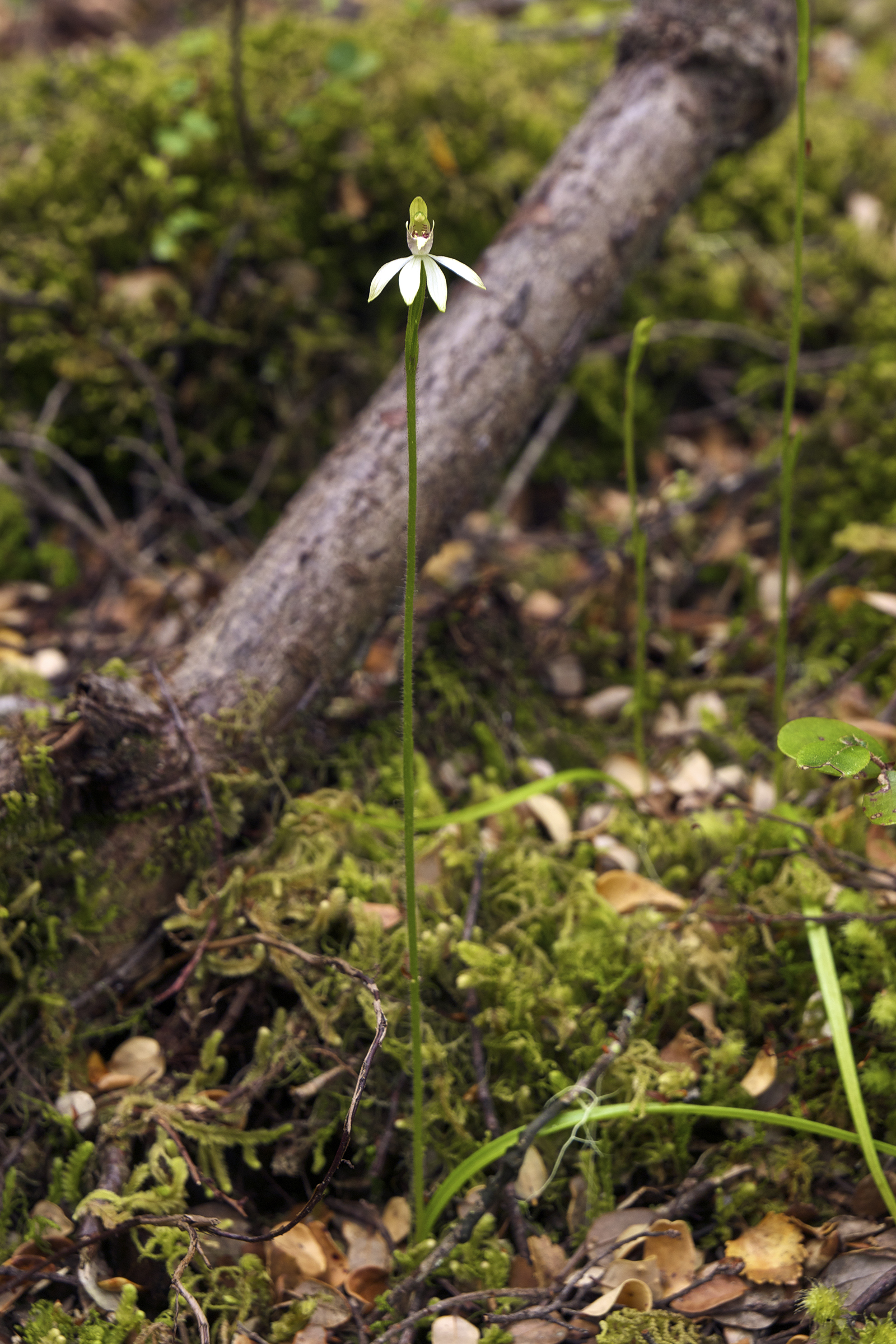 Caladenia orchid (Caladenia chlorostyla), Kepler track, Fjordland, New Zealand